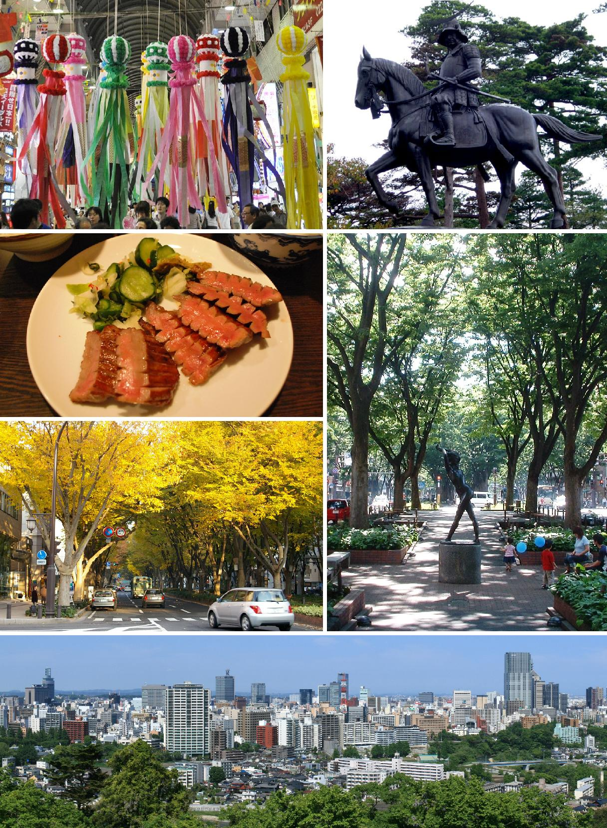 From top left: Sendai Tanabata Festival, Statue of Date Masamune, Gyutan, Jozenji St. in Summer, Jozenji St. in Autumn, Skyline of Sendai.